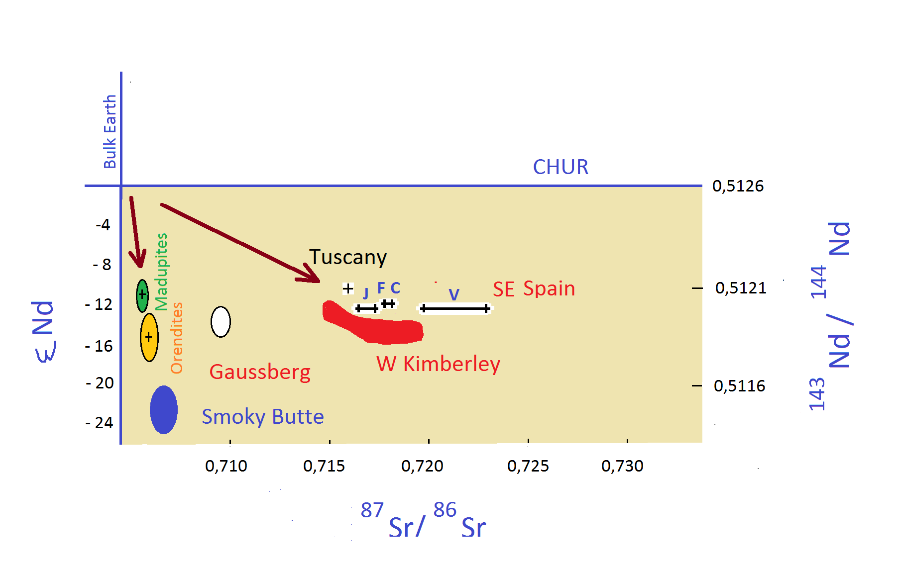 Neodym-Strontium isotope diagram depicting the position of the lamproites from SE Spain in relation to other magmatic provinces. Indicated by arrows the shallow and the deep trend of magmatic evolution. CHUR: chondrite uniform reservoir, J: jumilites, F: fortunites, C: cancalites, V: verites